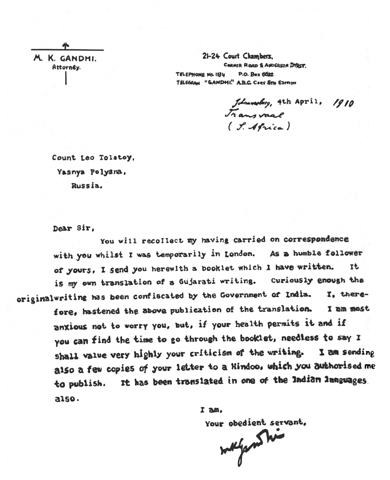 Letter of Gandhi to Tolstoy, Johannesburg, April 4th, 1910.